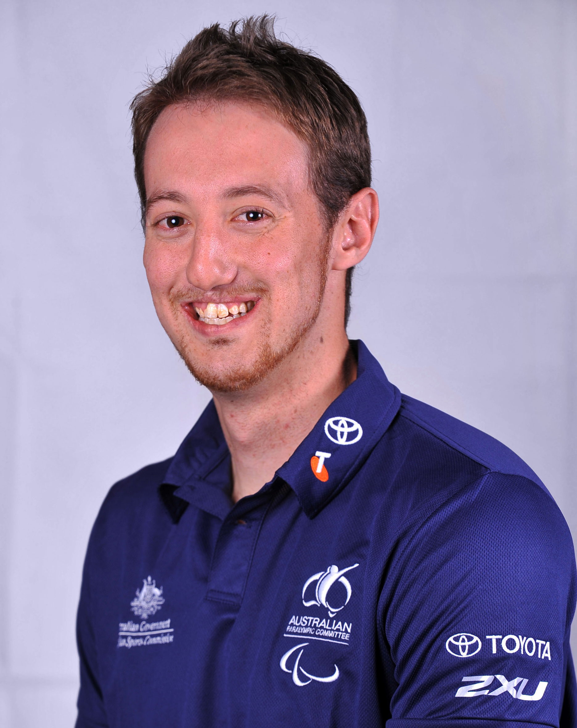 Portrait of Australian athlete Matthew Cameron, 2012 Australian Paralympic (shadow) Team athlete